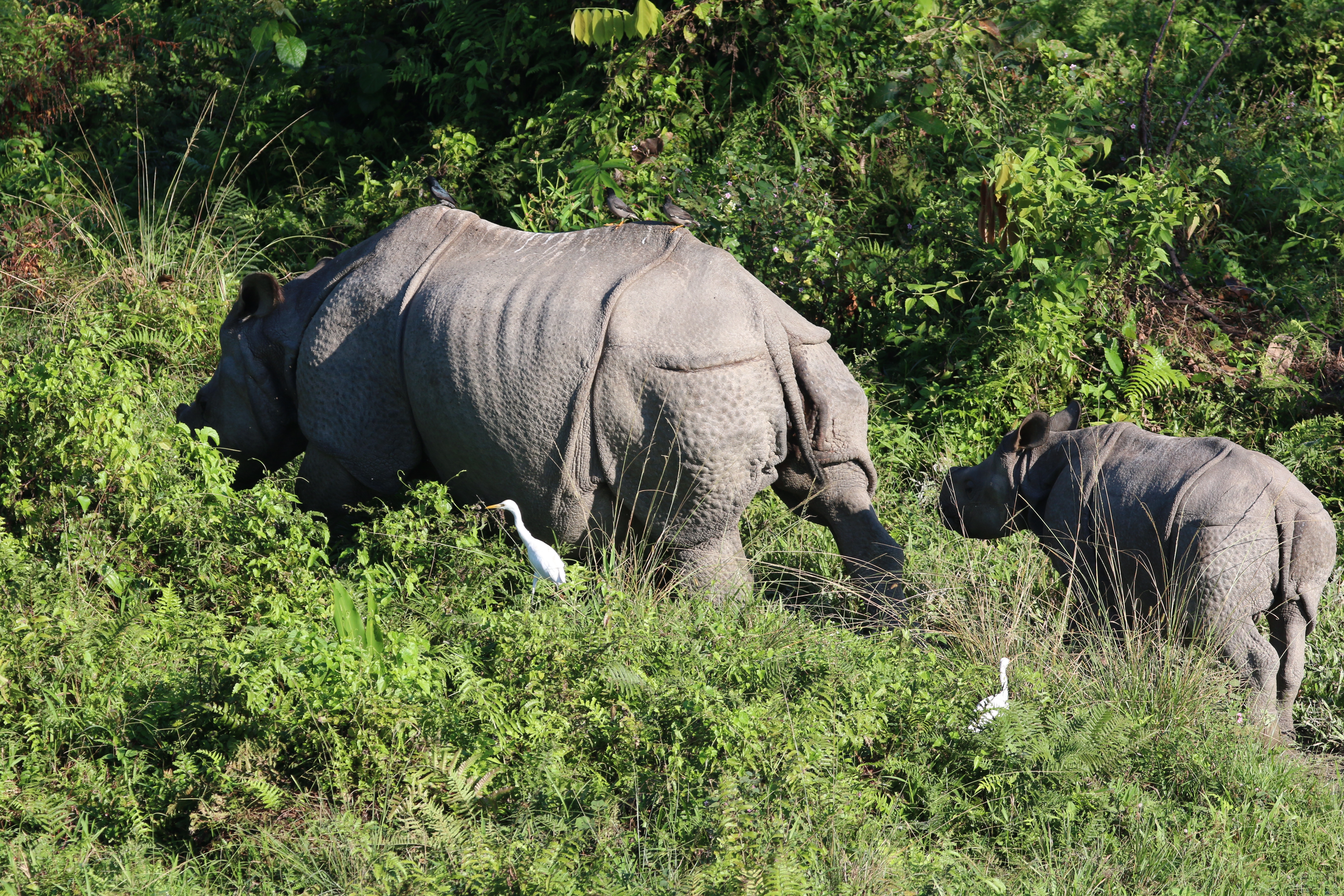 Mother rhinoceros with baby near Murti River